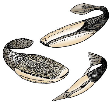 Pteraspidomorphs are among the earliest known vertebrates. They were jawless and possessed a massive dermal skeleton. They are characterized by their dermal head armor having large, median, ventral and dorsal plates or "shields" (red).